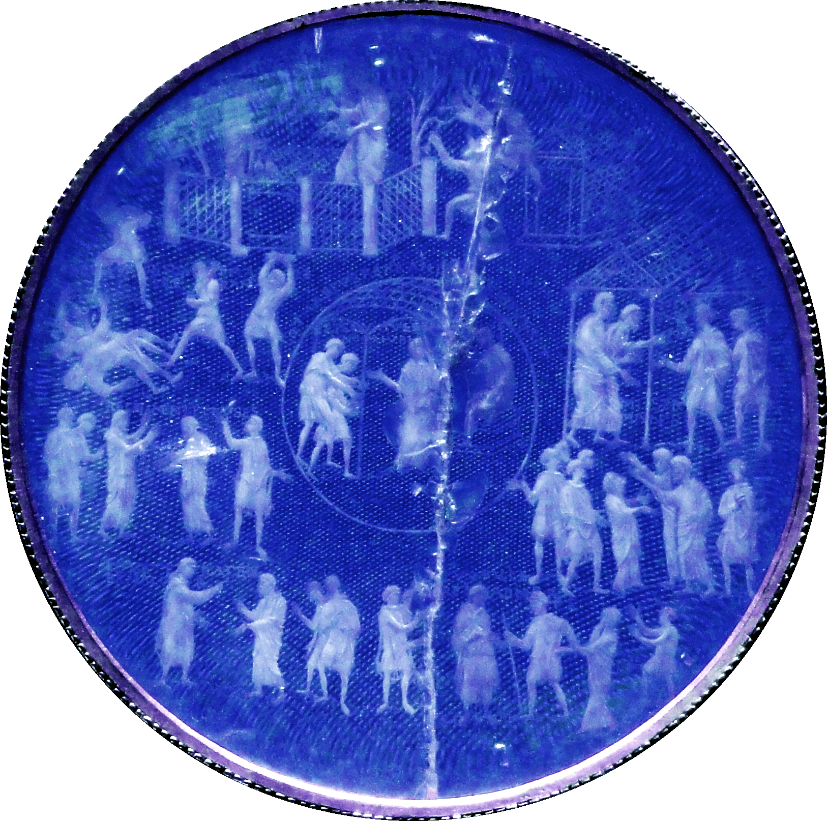 See below